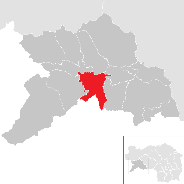 district Murau